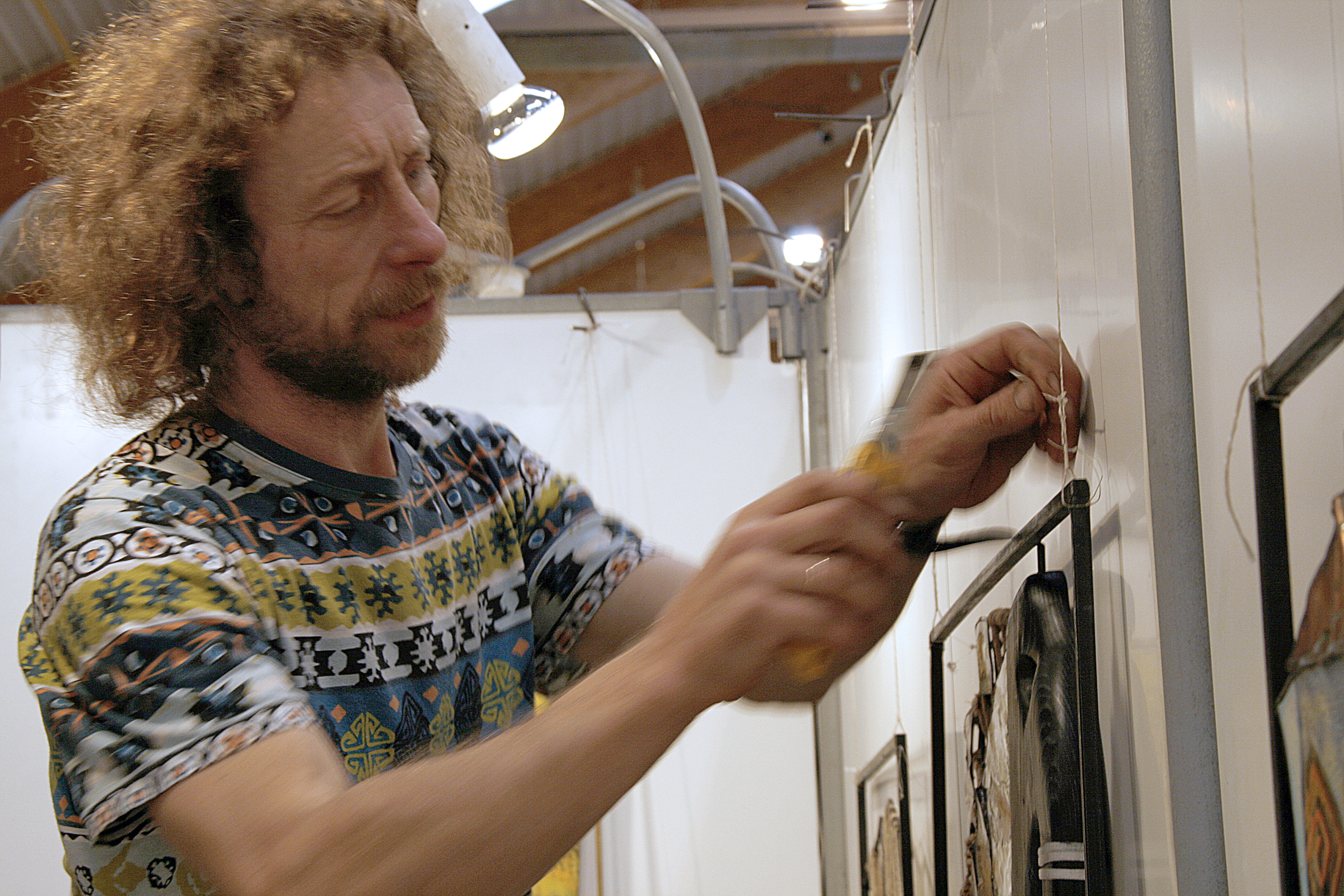 Mikhail Selishchev LibrArt 2012